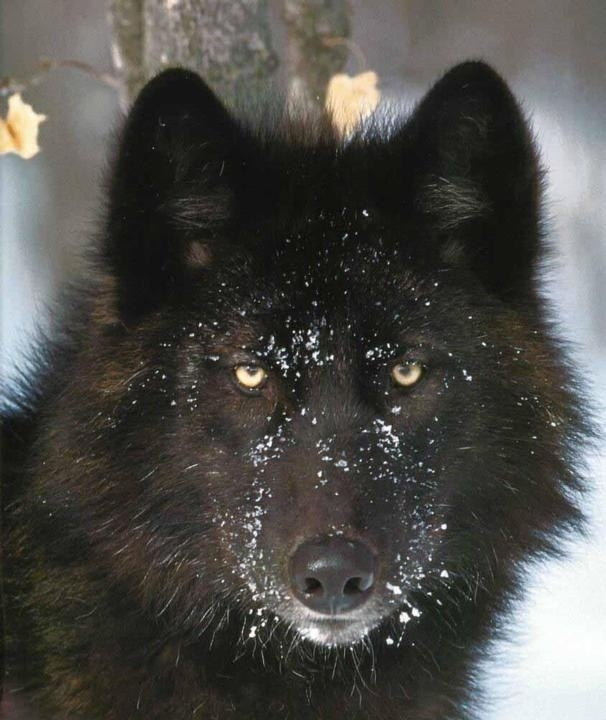 Possible relation or descendant of Storm